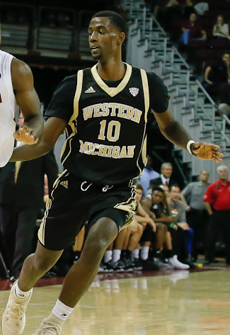 Photo by Chris Gillespie